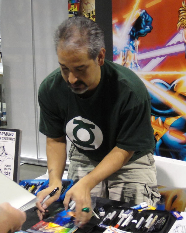 Long Beach Comic & Horror Con 2011 - Norm Rapmund photo 2011 taken by Doug Kline If you're interested in higher resolution versions of my images, contact me via my profile page.